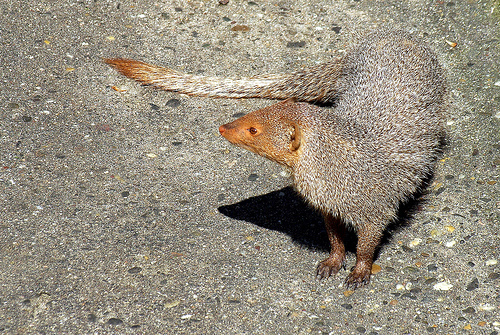 Indian Gray Mongoose (Herpestes edwardsii), Photographed at Nagerhole, karnataka